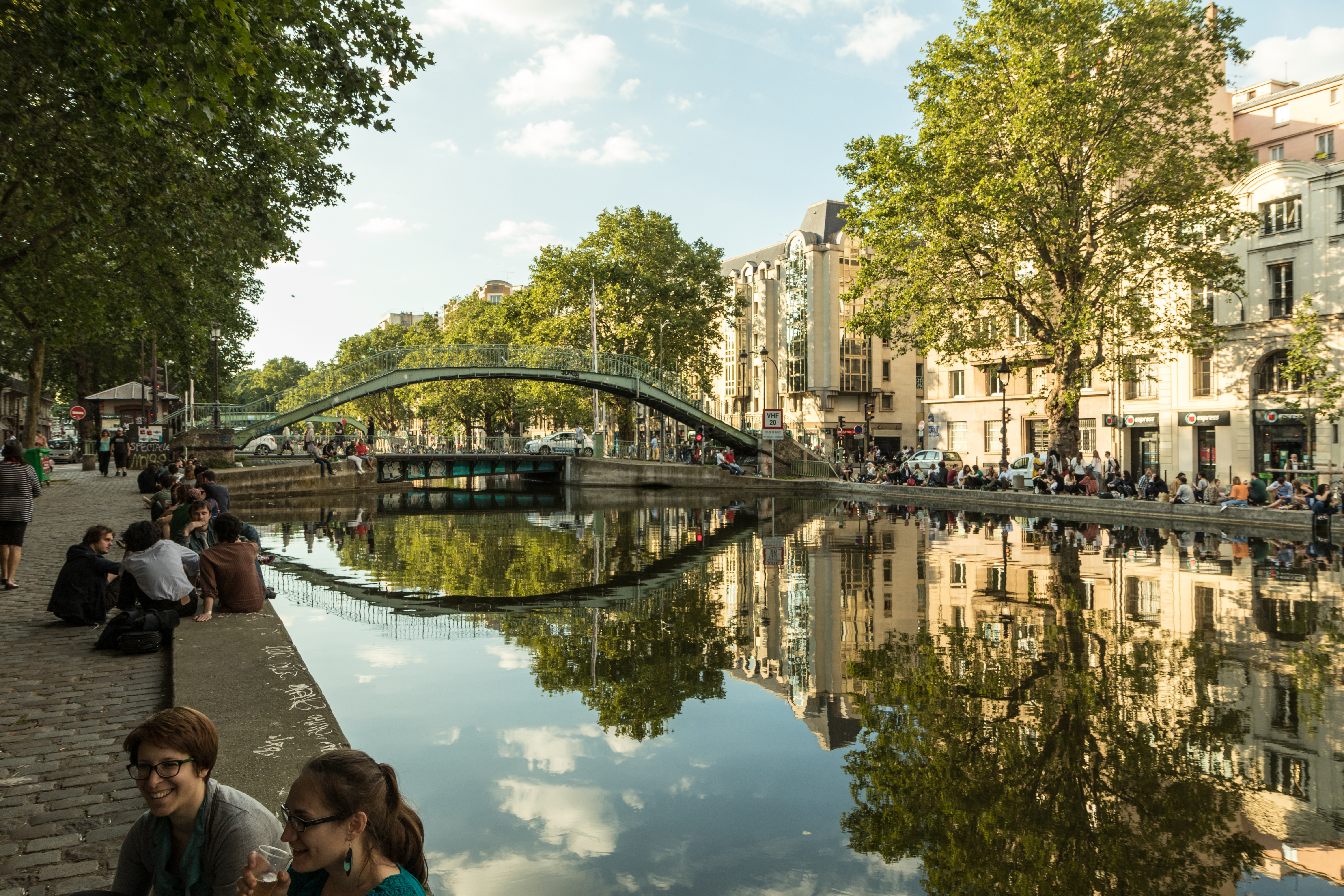 Couldn't believe how many locals were out enjoying dinner or drinks on a weekday evening, fantastic public space